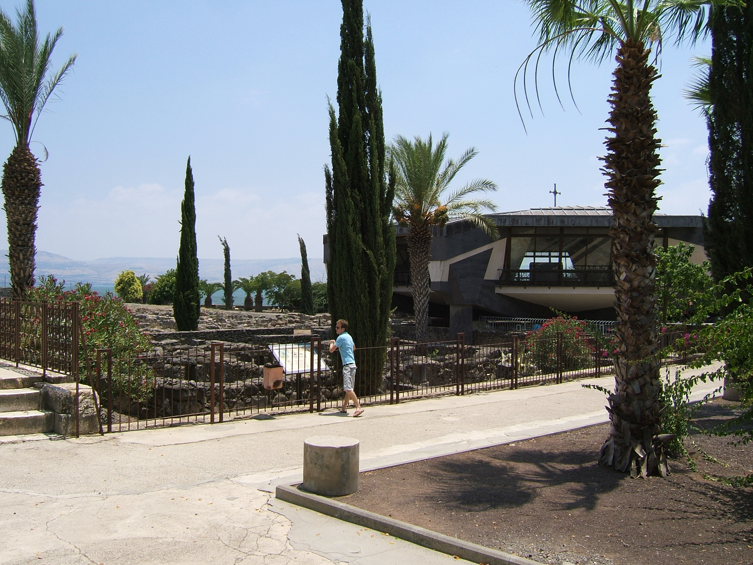 Ruins of ancient Capernum in Israel. Orthodox church is built on top of traditional site of Saint Peter's house. Photo taken in Israel 2005 by myself (Bantosh).